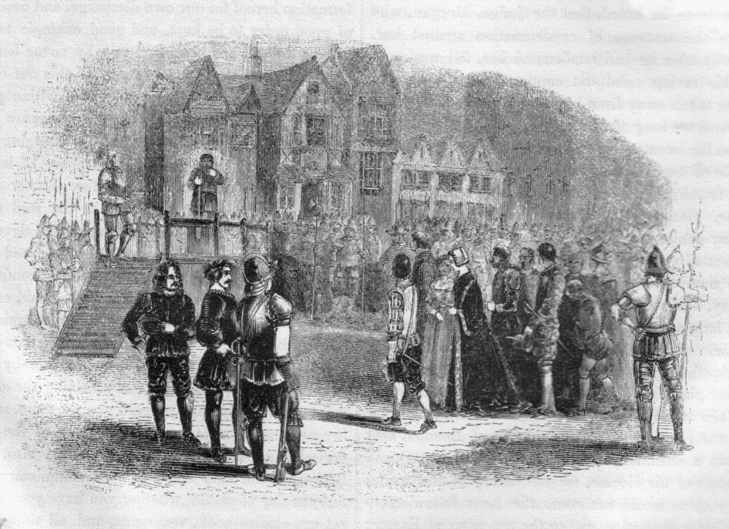 Jane Grey walking to Tower Green to the scaffold.